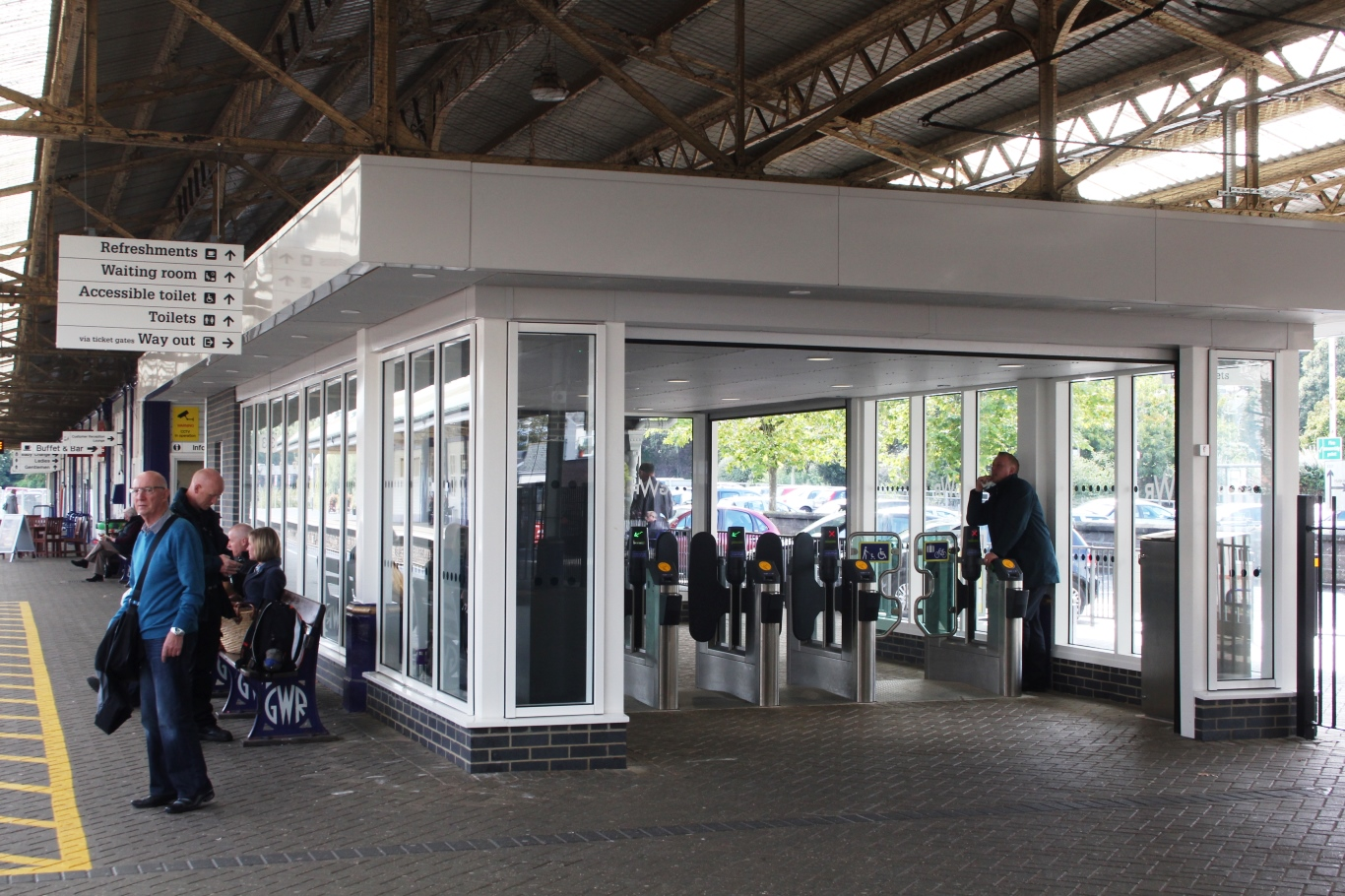 Newton Abbot station became 'closed' in 2017 when a new fence and ticket gates were installed. The ticket gates are not in the ticket office so a shelter was built on the platform for them.